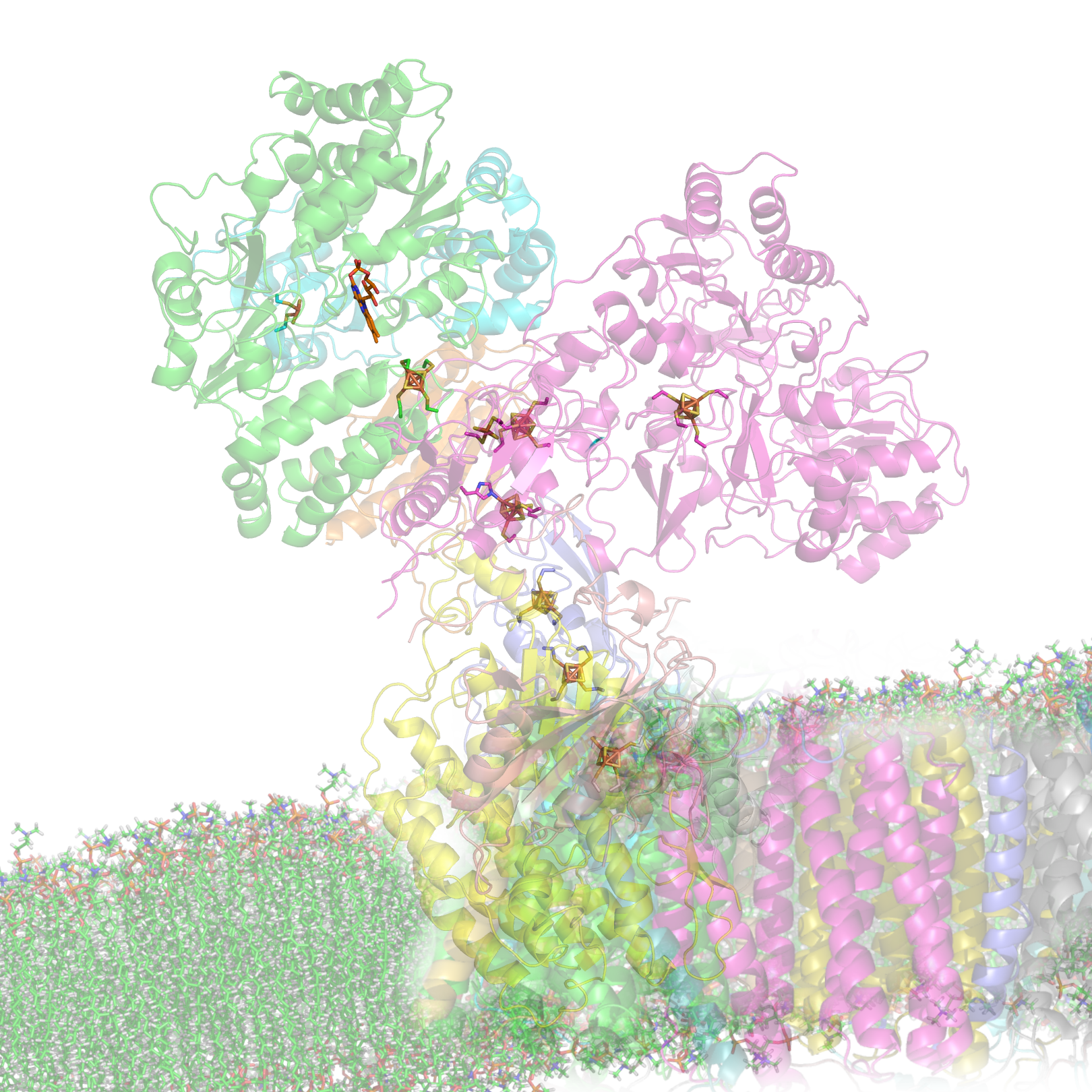 By Richard Wheeler (Zephyris) 2006. Based on . Unlabeled version of Image:NADH Dehydrogenase 2FUG Electron Carriers Labeled.png. Category:Protein images